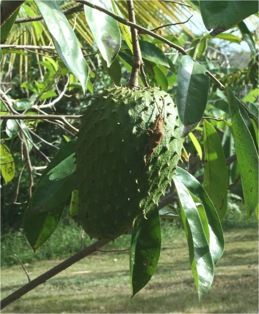 Fruit of Annona muricata from Boca de Nicharé on Rio Caura, Venezuela